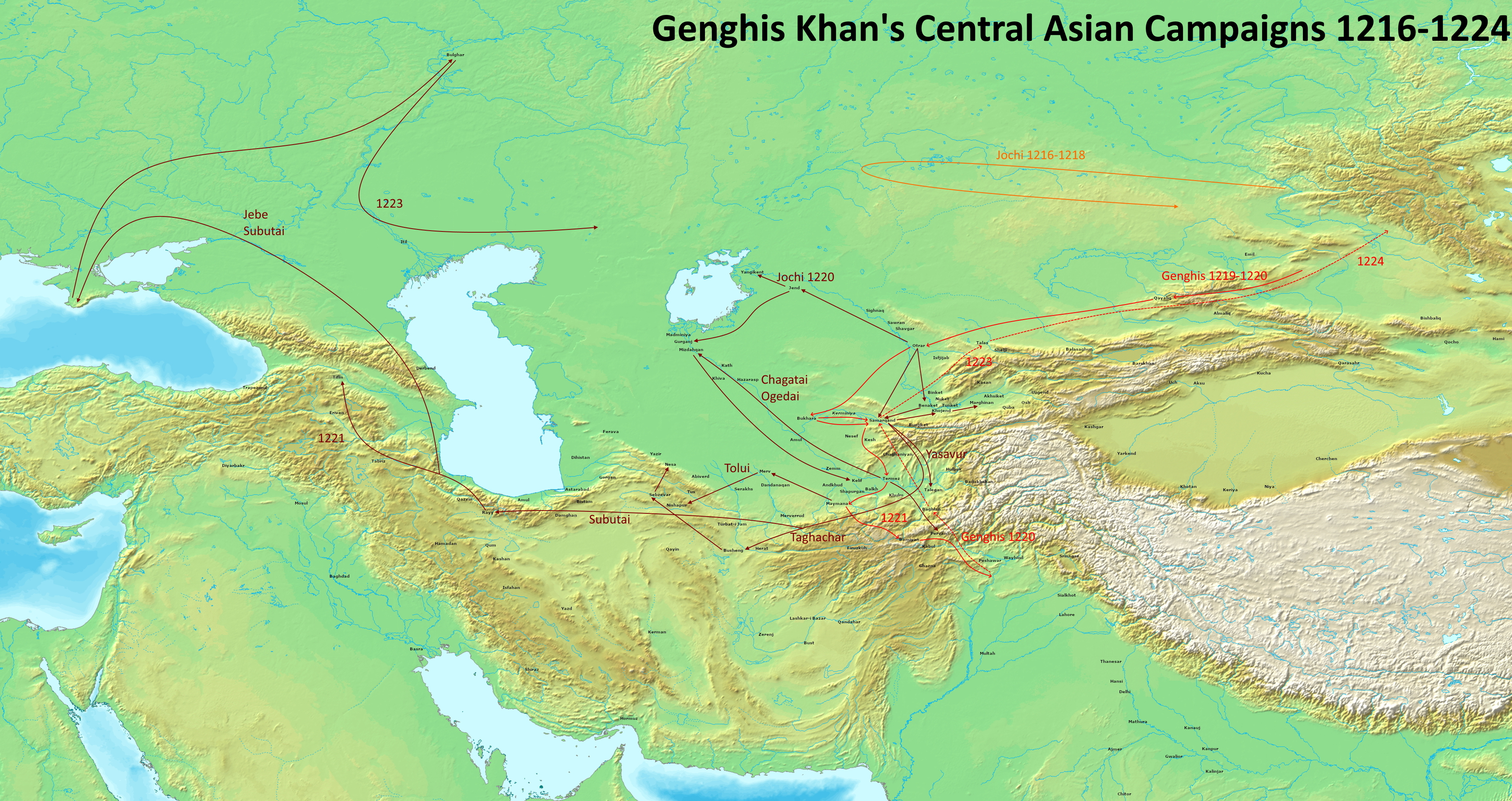 Genghis Khan's Middle Eastern campaigns 1216-1224